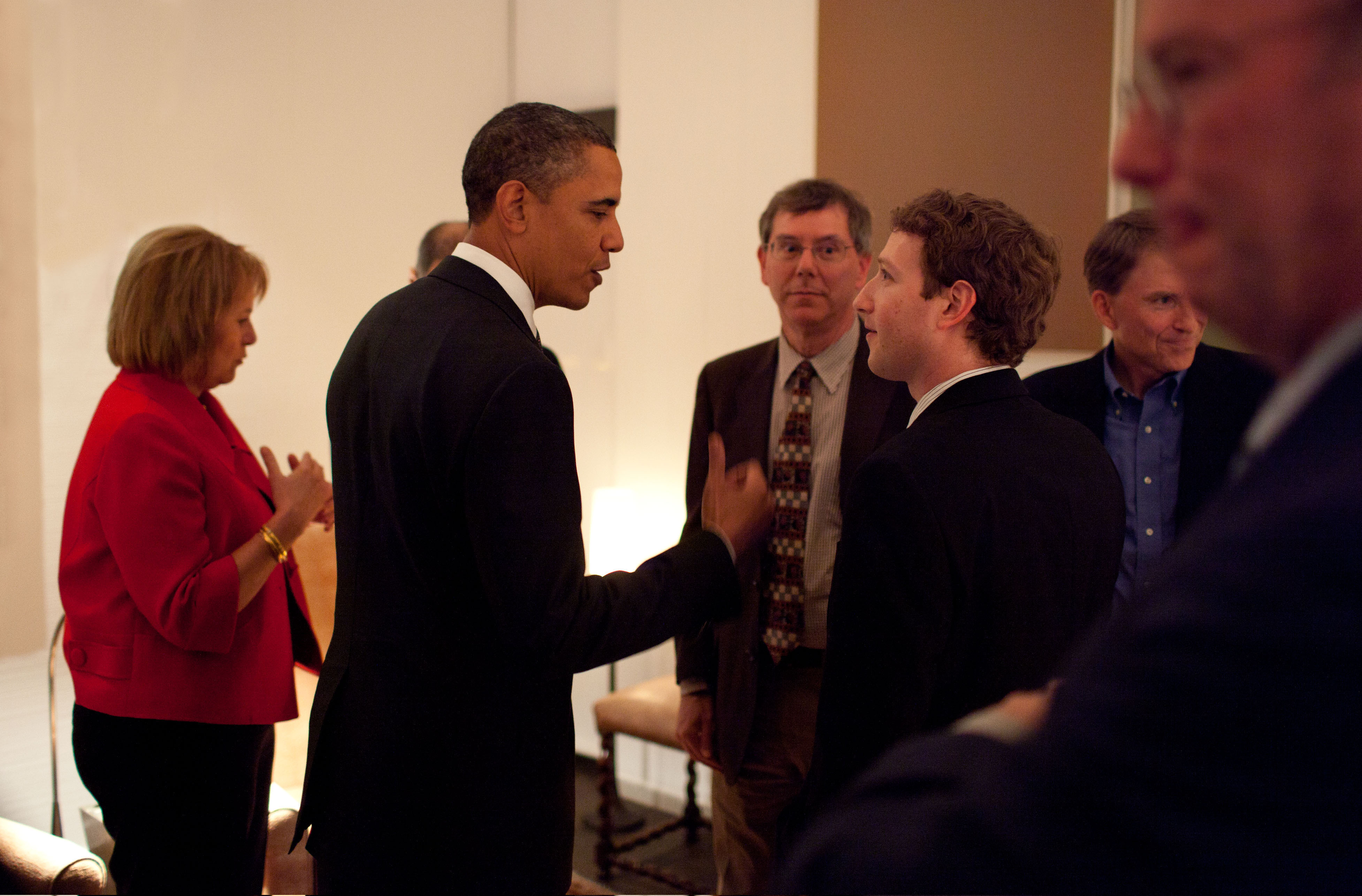 Barack Obama and Mark Zuckerberg talk before a private meeting where Obama dined with technology business leaders in Woodside, California . Also shown, from left: Carol Bartz, Yahoo! President and CEO; Art Levinson, Genentech Chairman and former CEO; Steve Westly, Founder and Managing Partner, The Westly Group; and Eric Schmidt, Executive Chairman and CEO of Google.